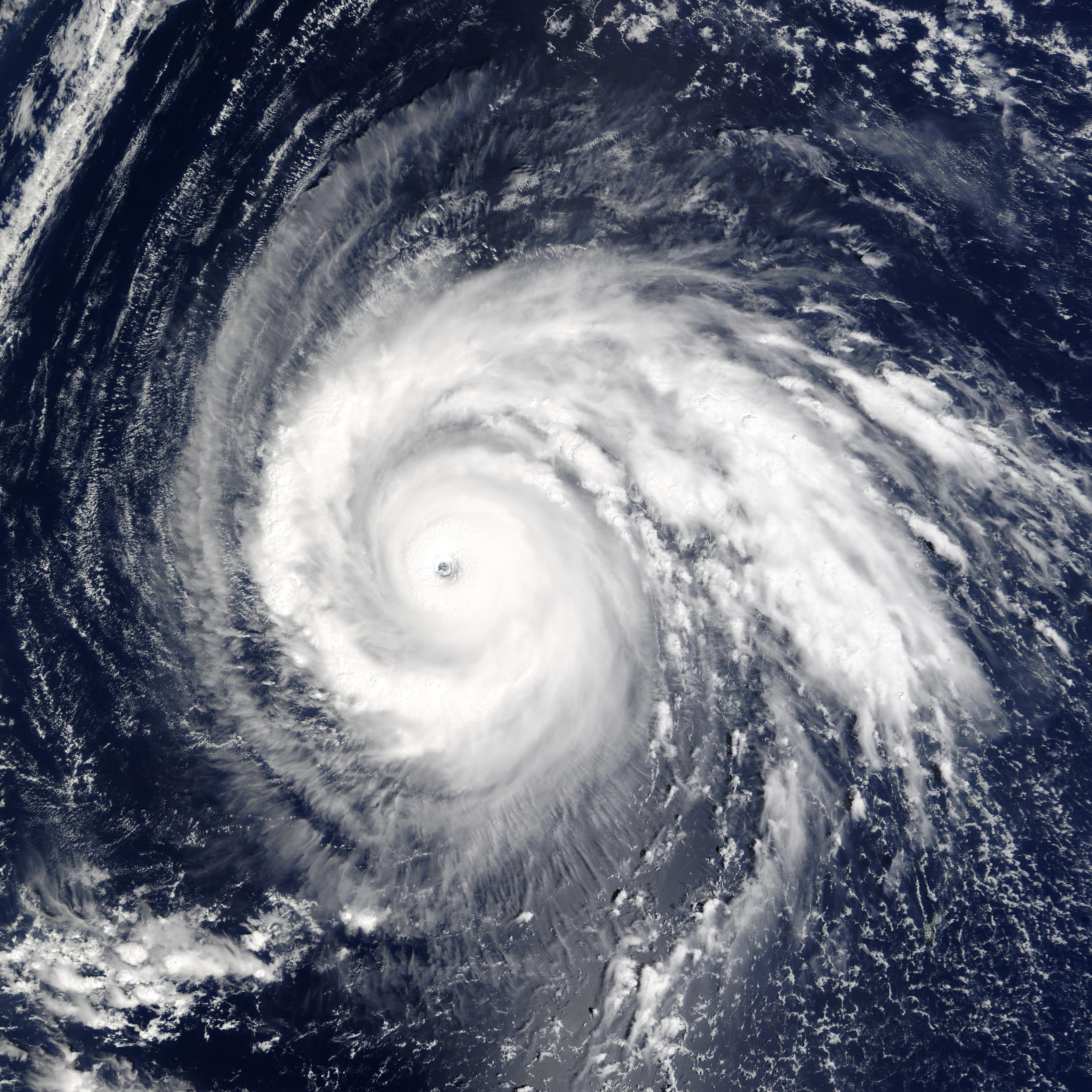 Typhoon Higos had just acquired Level 4 Super Typhoon status as the time this image was acquired on September 29th with winds of 135 knots (1 knot = 1.15 mph). Higos began on September 26th as a tropical depression (with less than 34 knot winds) and grew to a tropical storm (34-63 knot winds) that same day. All throughout the 26th and 27th, Higos fluctuated between being a tropical depression and storm, and even dissipated twice. But finally, late on the 27th, Higos became a typhoon. Thereafter, its growth was rapid. On the 28th it grew from a level 1 to a level 3, and on the 29th it became a level 4, with 135-knot maximum sustained winds. On September 30th, the day after the Terra MODIS instrument acquired this image, Higos began losing momentum, and by October 2nd it had been downgraded to a tropical storm. During its run, Higos made landfall on Japan’s main island, Honshu, and traveled northward over Hokkaido Island, until it dissipated in the Sea of Okhostk. The last super typhoon in this region was Phanfone (level 4) during mid-August. Phanfone abruptly turned east before it could make landfall on Japan, and dissipated in the Pacific Ocean.